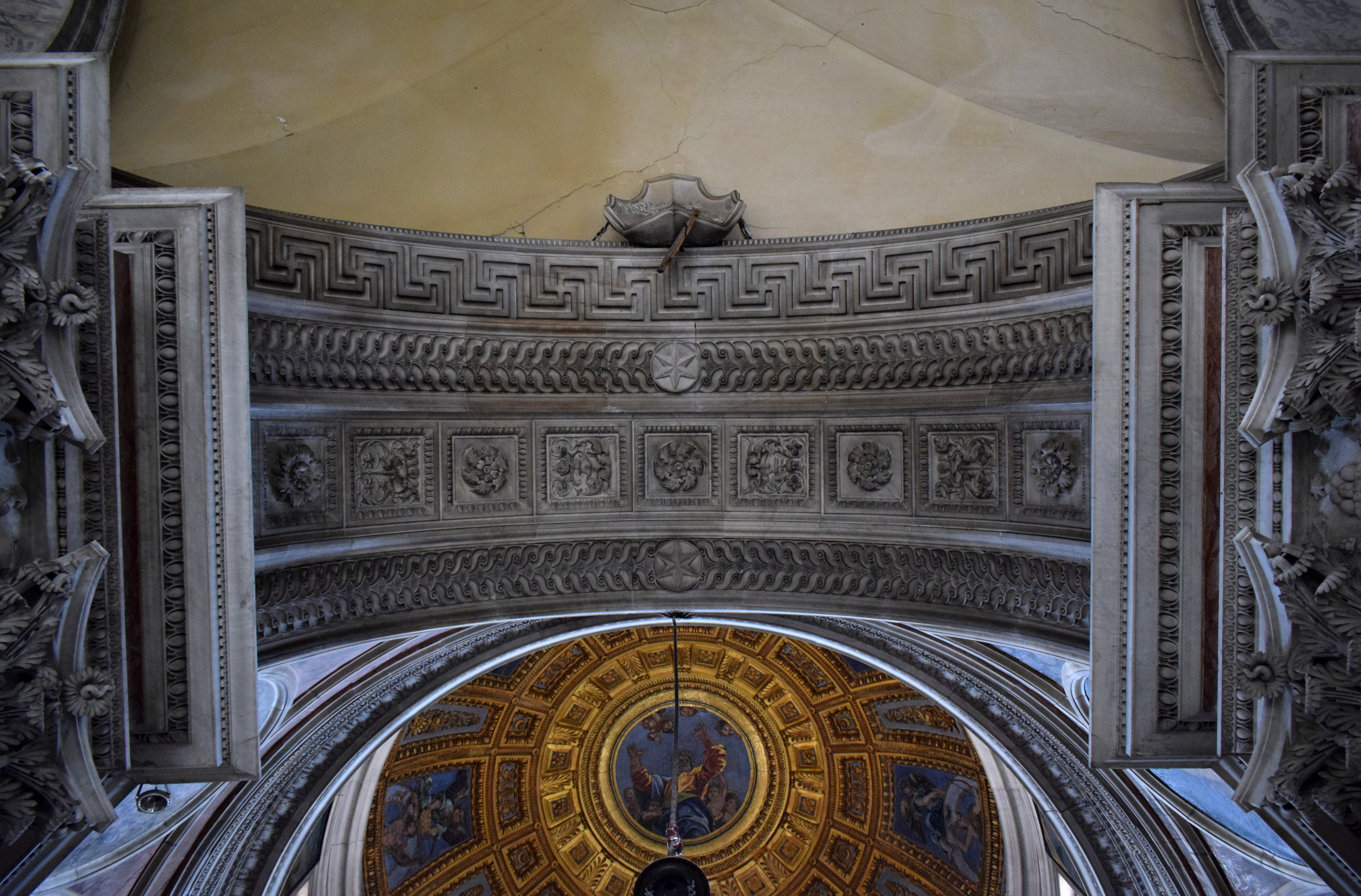 Soffit of the arch of the portal in the Chigi Chapel, Santa Maria del Popolo.